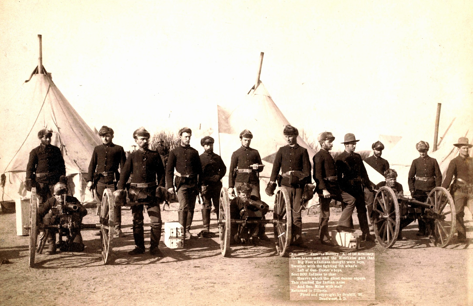 3 Hotchkiss 1.65 (42 mm) Guns